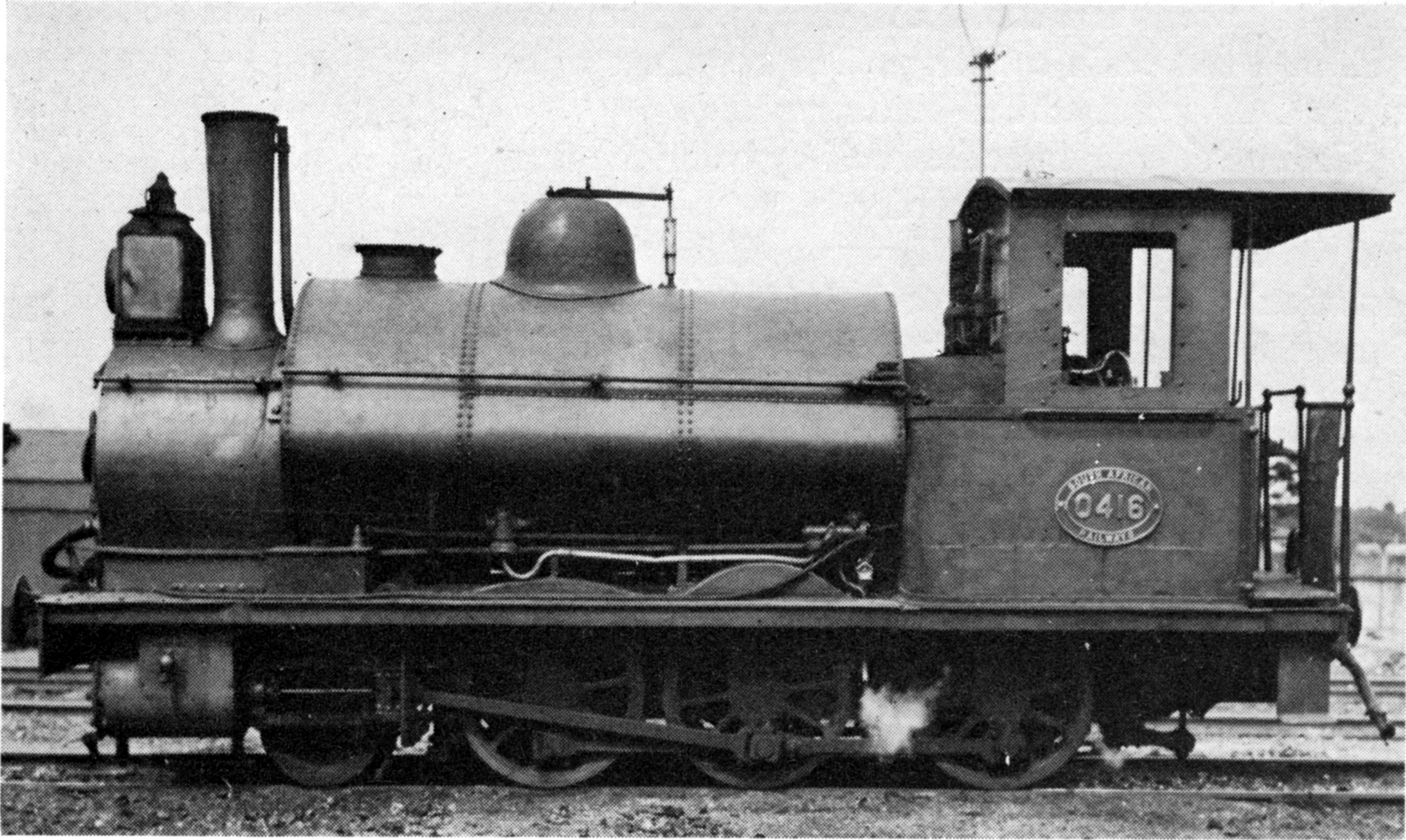 Cape Government Railways 1st Class 2-6-0ST of 1876 as modified to saddle-tank, SAR no. 0416